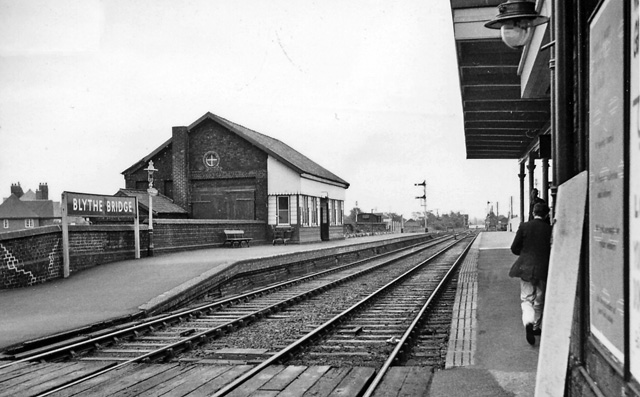 Blythe Bridge Station View SE, towards Derby; ex-NSR Derby - Stoke-on-Trent main line.